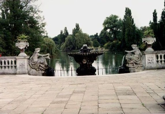 Italianate Garden, Hyde Park Near the Bayswater Road Lancaster Gate entrance